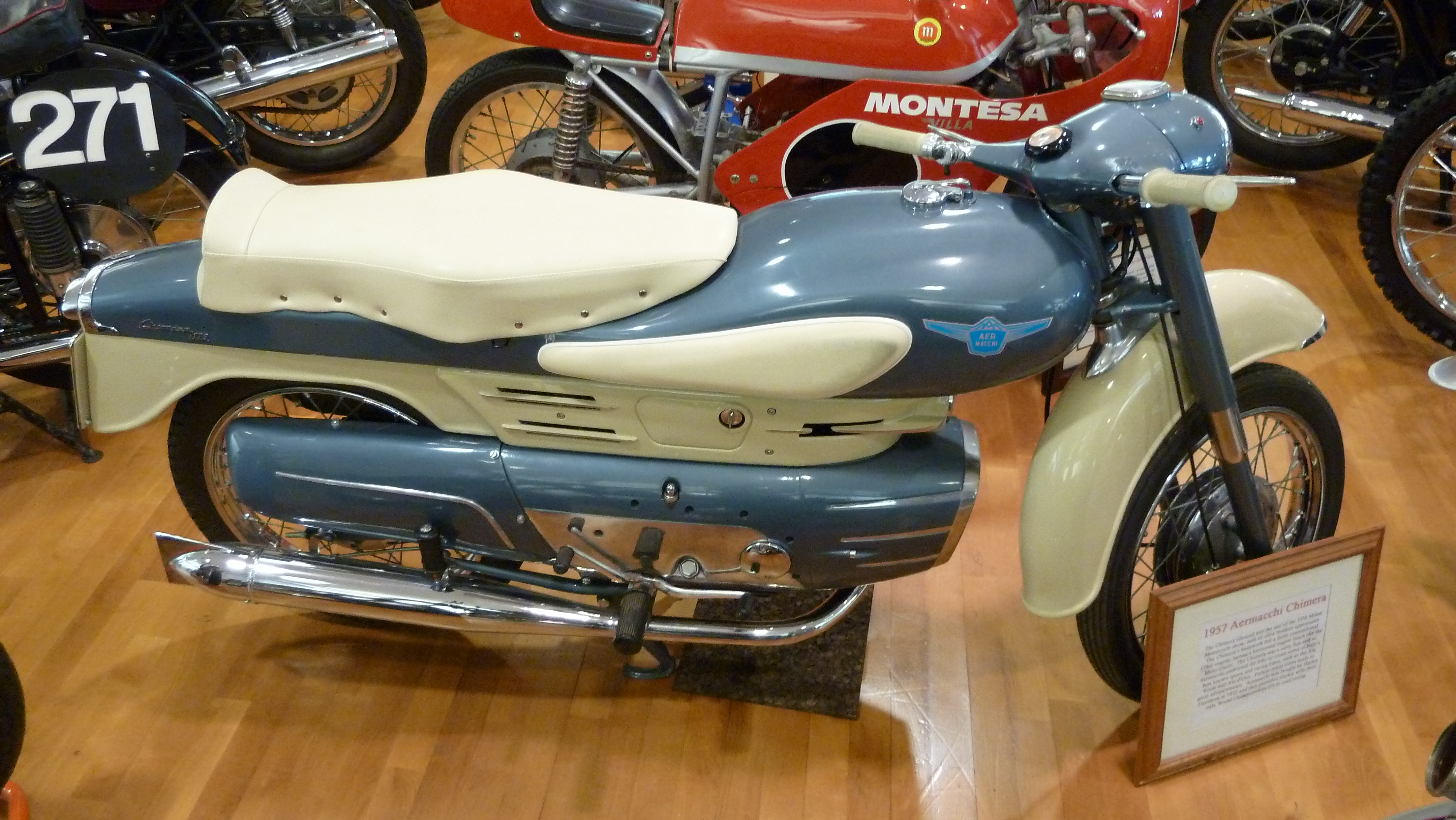 175cc motorcycle at the Solvang Vintage Motorcycle Museum, Solvang, CA